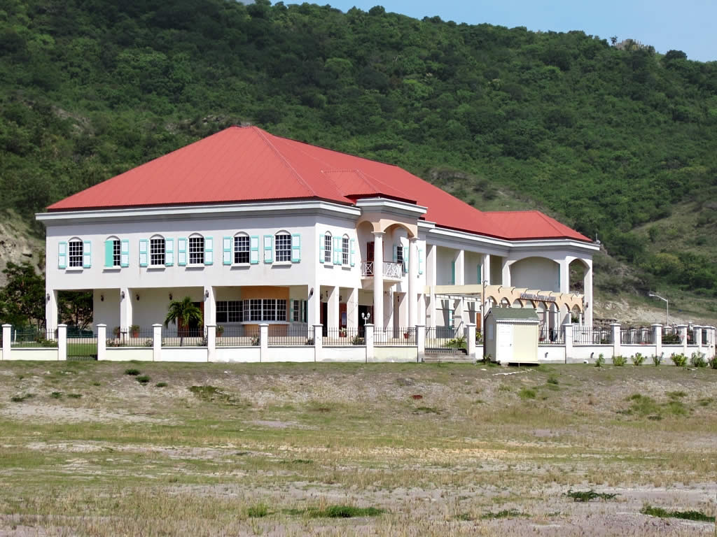 The Montserrat Cultural Center (2007) overlooks Little Bay. Beatles producer Sir George Martin raised funds for the construction.